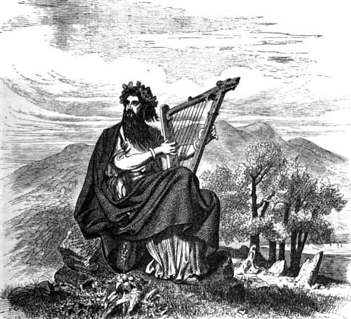 Bragi. Bragi with a harp.